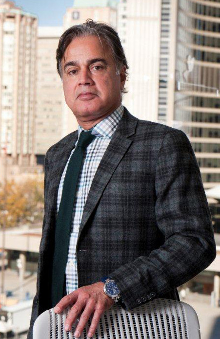 Stan Bharti, Founder, Forbes & Manhattan Inc. at their Toronto offices. Other information